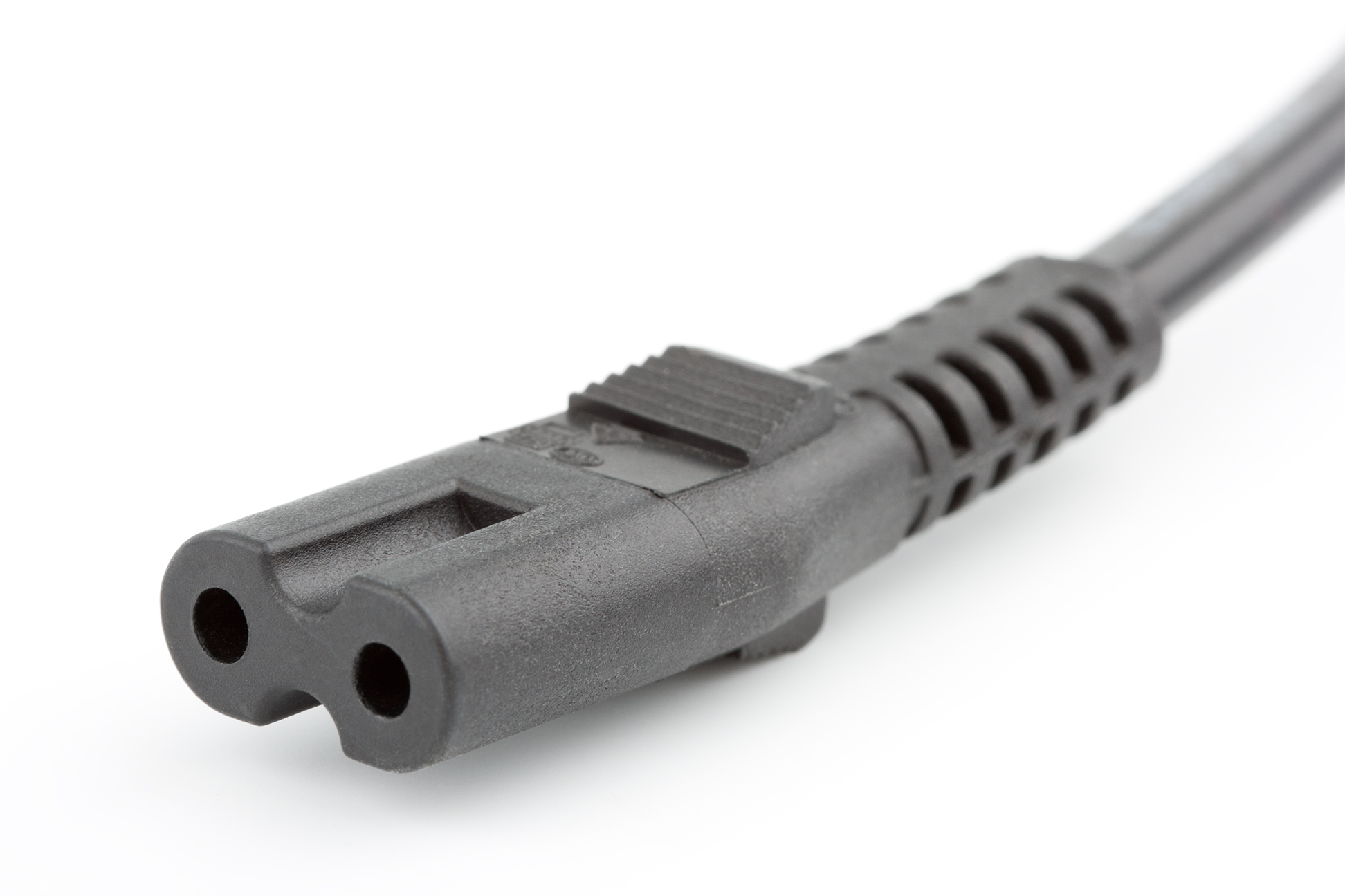 IEC 60320 C7 connector